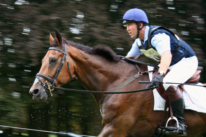 Jonathan Chapman competing at Blenheim in 2006